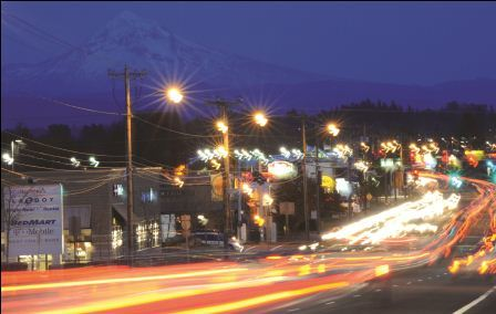 NW Burnside and NW Eastman Parkway at night in Gresham.